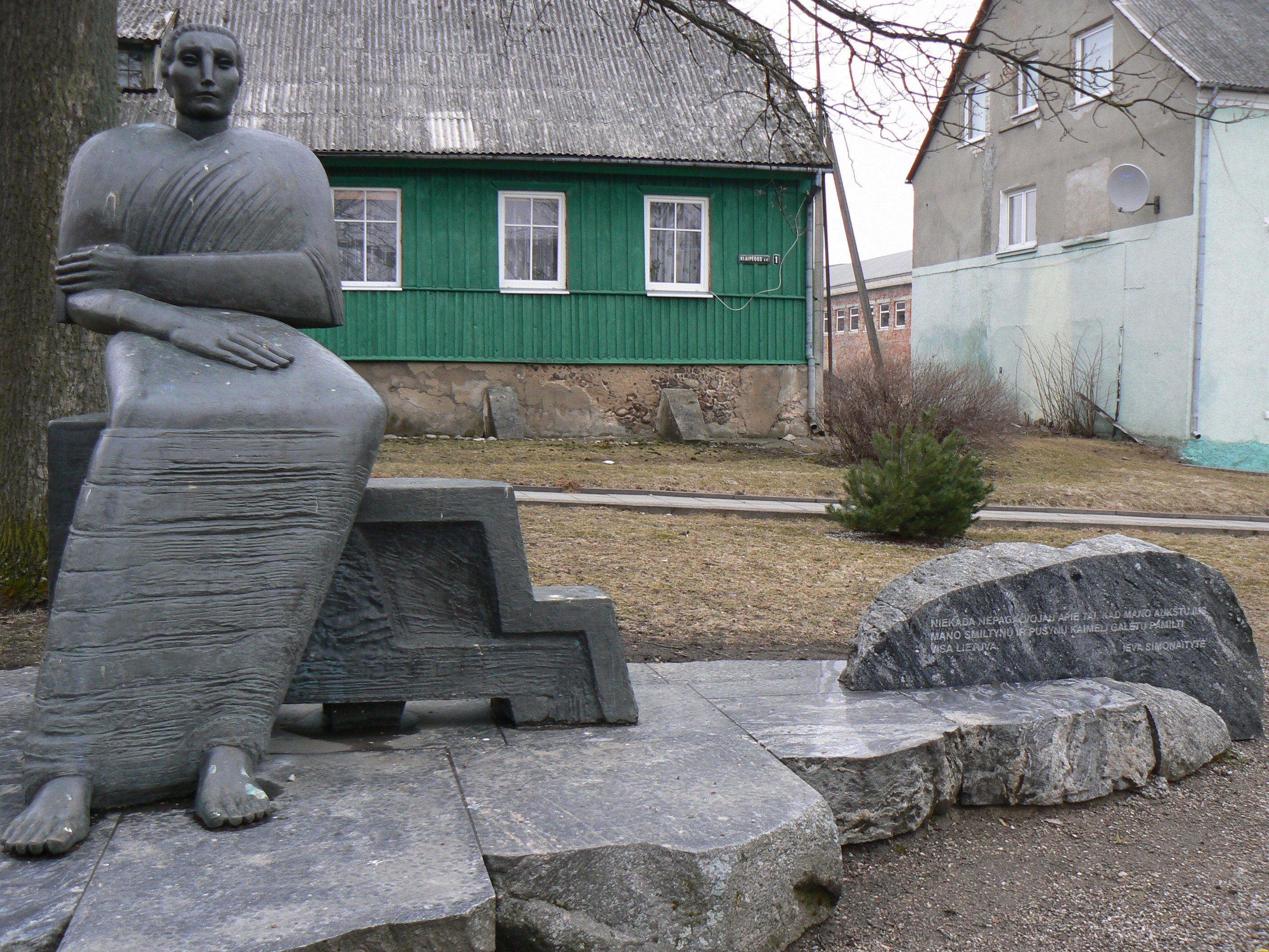 Monument to Ieva Simonaitytė in Priekulė